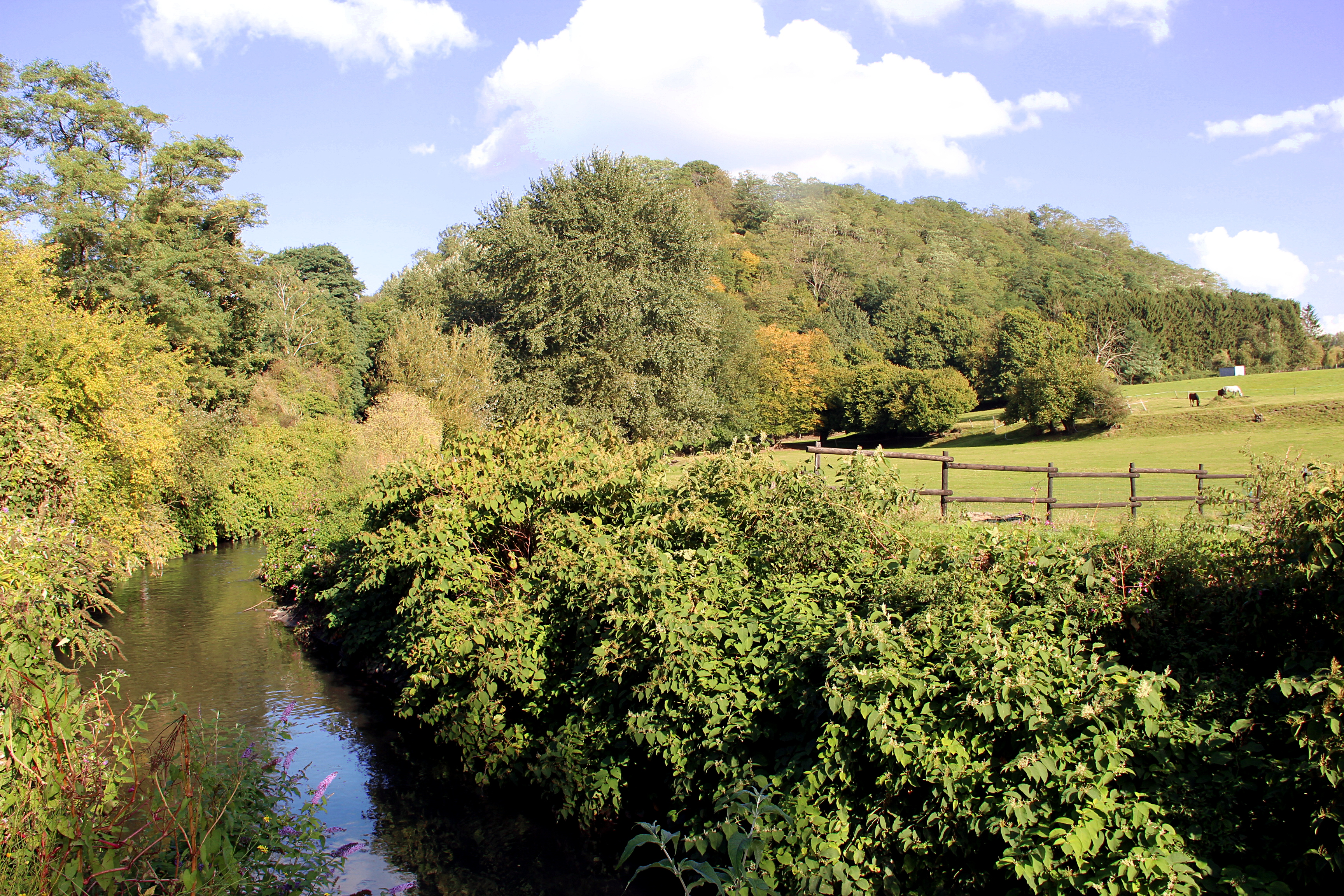 Havré (Belgium), the Haine and the terril (spoil tip) N°1 in the autumn.